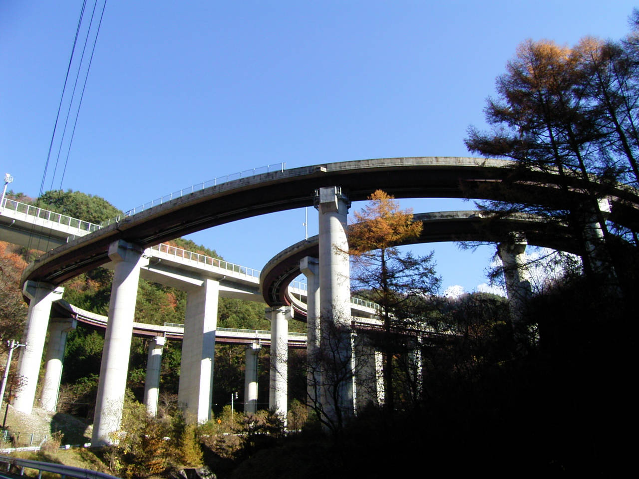 Takagi interchange Nagano Japan